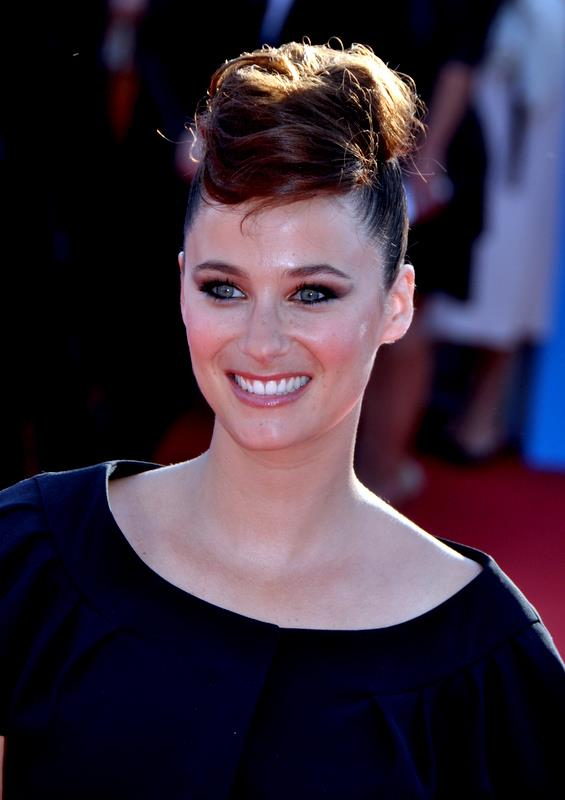 Mélanie Bernier at the awards ceremony for the 38th Deauville American Film Festival.